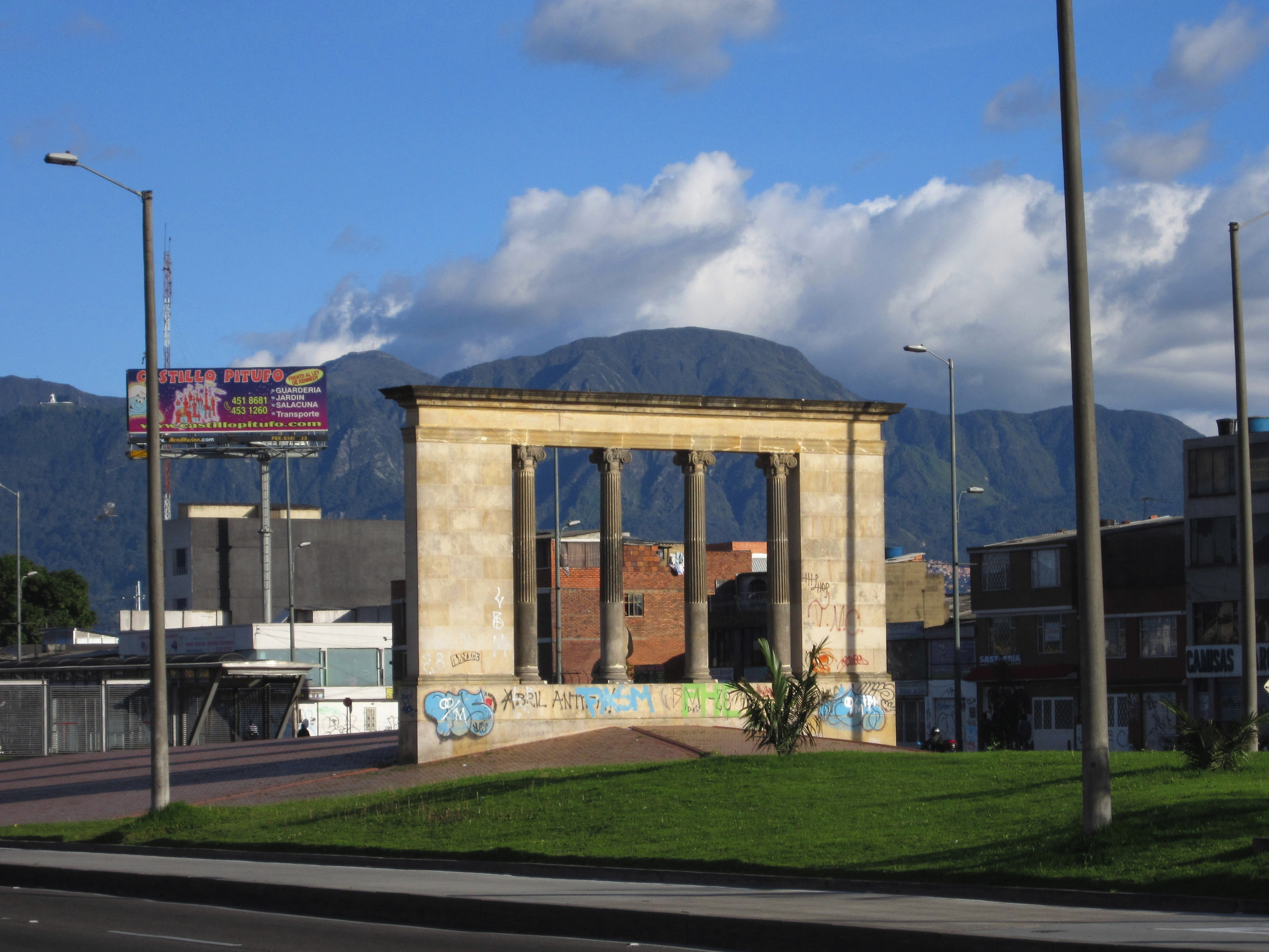 Monumento a Sía, diosa del agua, en la estación Marsella, avenida de Las Américas con carrera 69, ciudad de Bogotá.